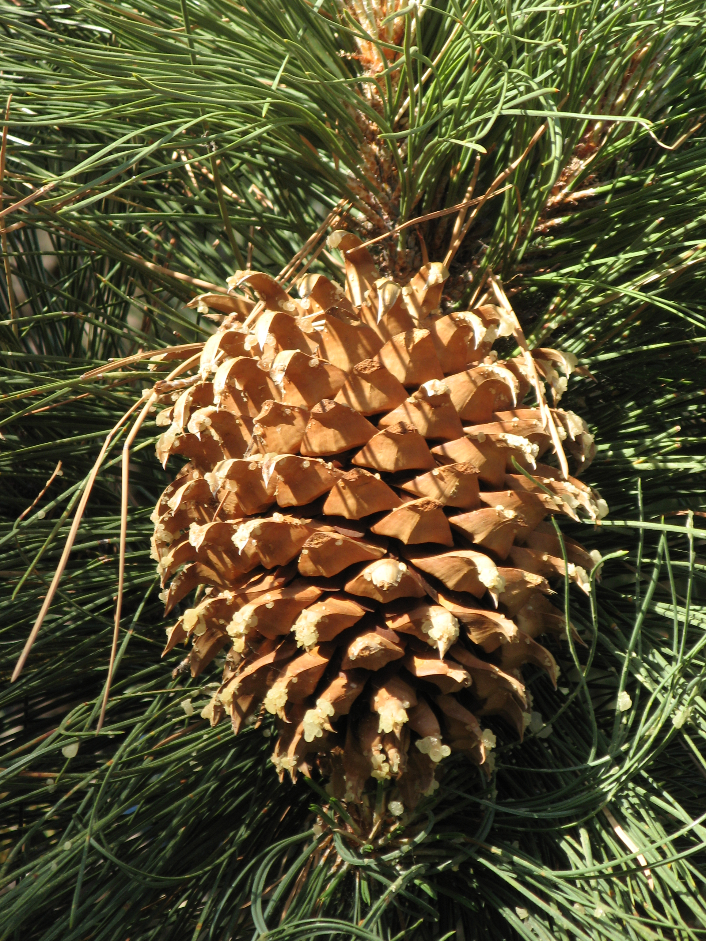 A female Coulter Pine (Pinus coulteri ) cone — at Mount Wilson. In the San Gabriel Mountains, Angeles National Forest, Southern California. Photographed and uploaded by user:Geographer